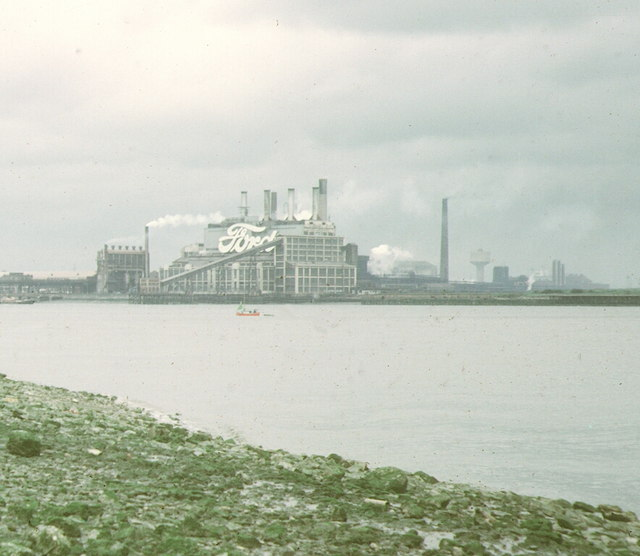 Ford Works, 1973. From an elderly slide taken in a biting wind from near Jenningtree Point, Belvedere